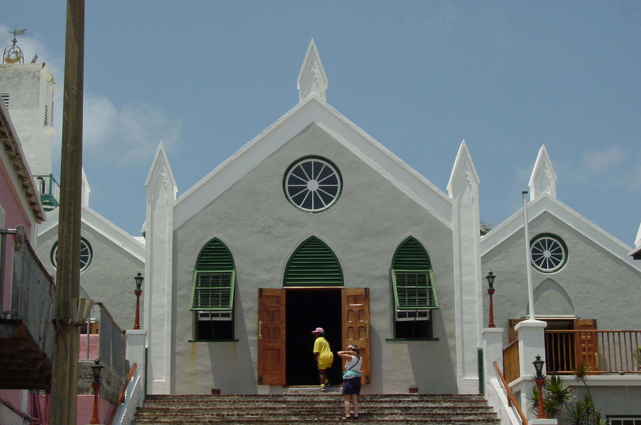 Saint Peter's Church, in St. George's, Bermuda. Although the church, the oldest of the Church of England (now Anglican Communion) outside of Britain and Ireland, dates to 1612, the current structure dates only to 1620.